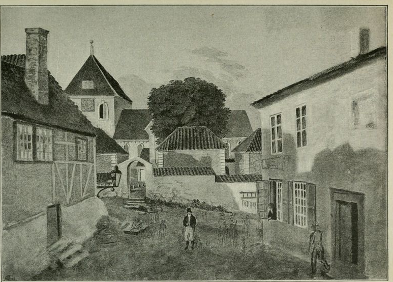 Illustration from the book Gamle Christiania-Billeder (1893) by Alf Collett.